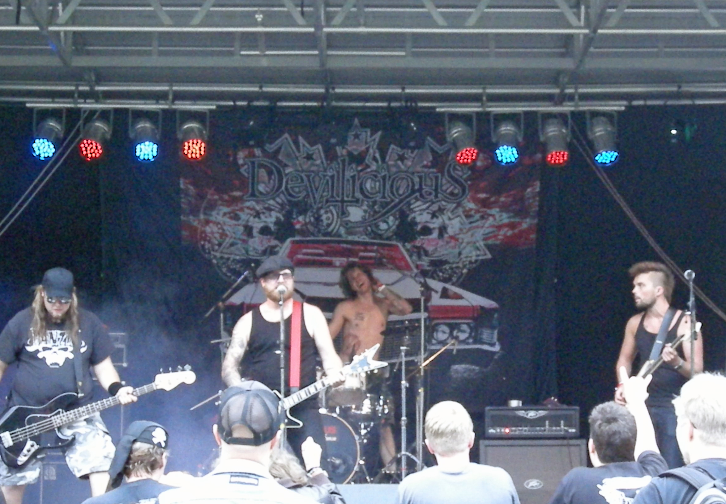 Swedish heavy metal band Devilicious at Skogsröjet, Rejmyre, Sweden 2012